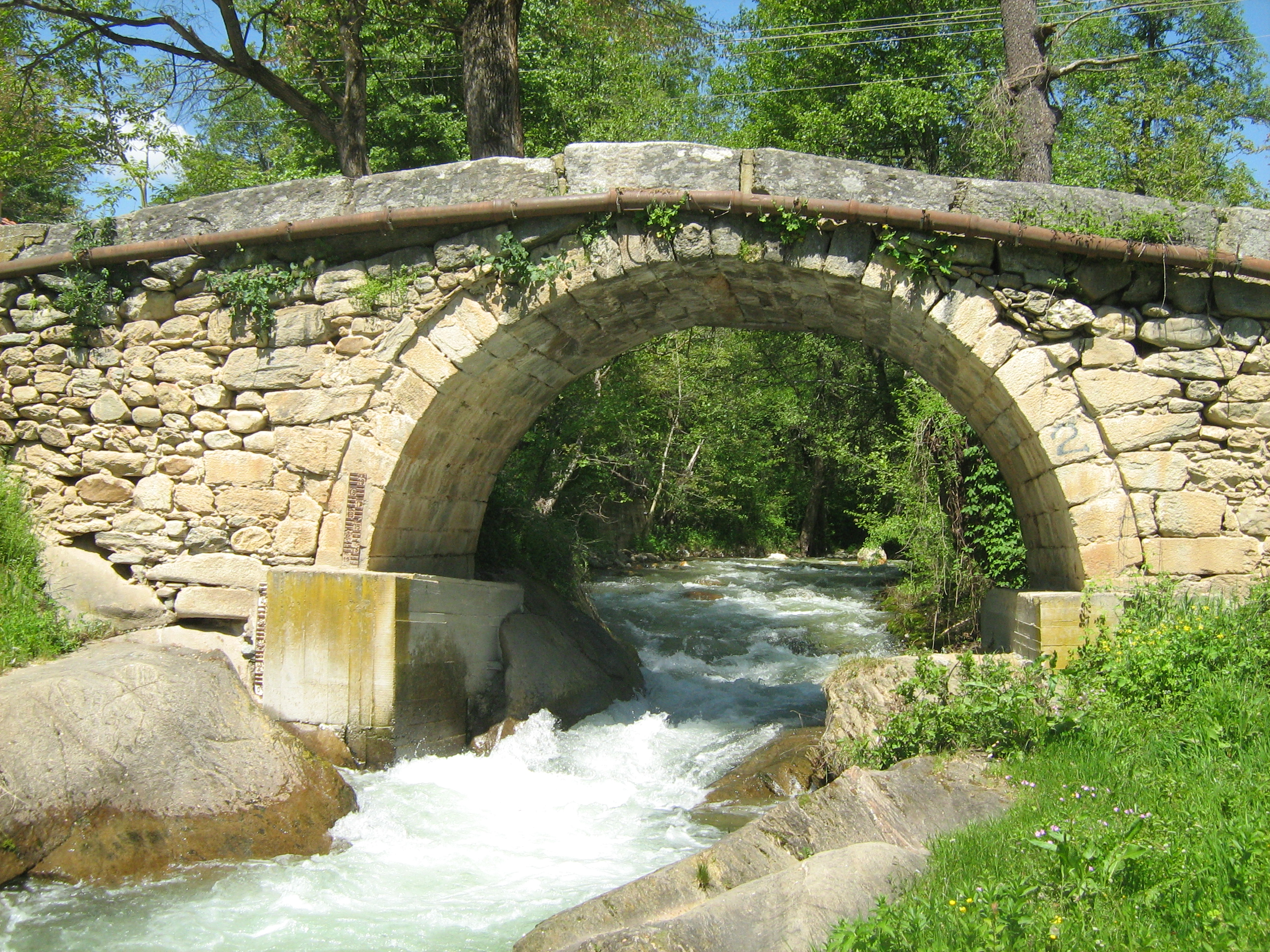 Roman bridge at river Babuna in Bogomila, Republic of Macedonia